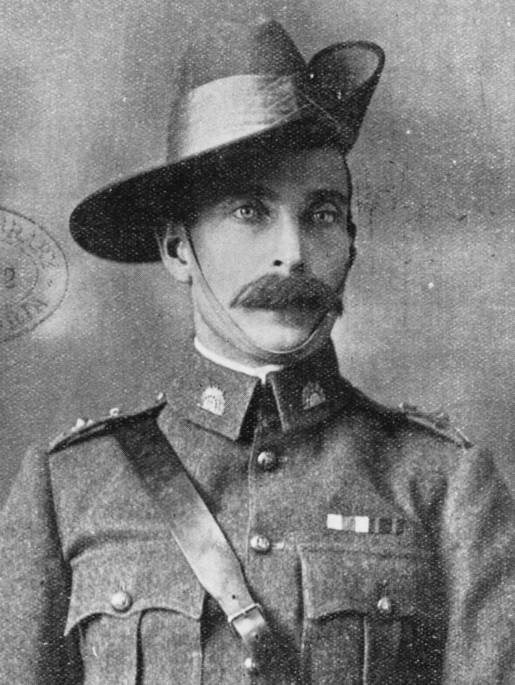 Lieutenant Colonel H. G. Chauvel, Commander of the Queensland Battalion (7th) Second Common Contingent.